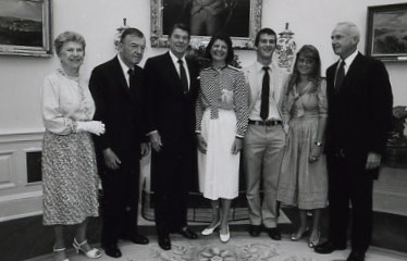 Ronald Reagan in Oval Office in 1982 with Robert Werner Duemling, departing ambassador to Suriname and family